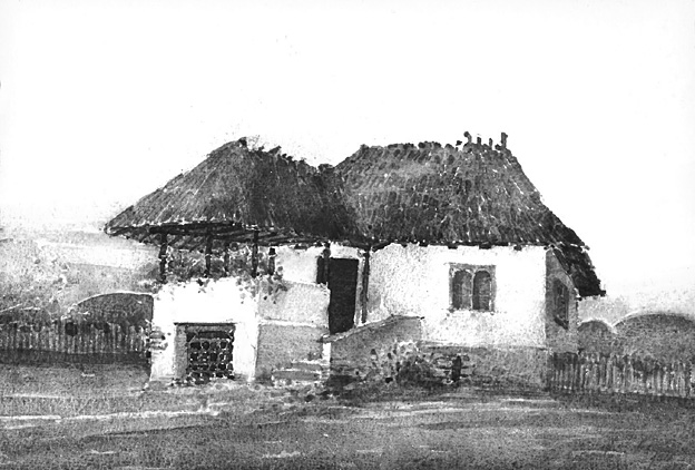 Ancienne maison de Ploieşti (Judeţul Prahova, Roumanie) tel qu'il en existait jusqu'au début du XXème siècle. Peintre: Toma T. Socolescu Nous sommes les descendants et uniques ayant-droits de toute l'oeuvre de Toma T. Socolescu (mort en 1960 à Bucarest).